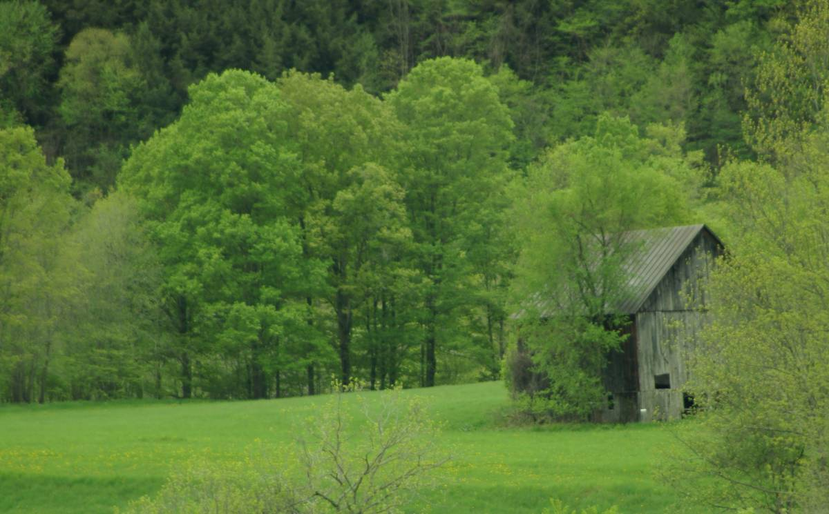 Old Field Barn in Tunbridge, Vermont, USA - Known locally as Tucker's barn